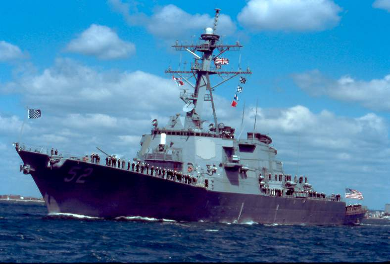 Portsmouth, England June 5 1994.